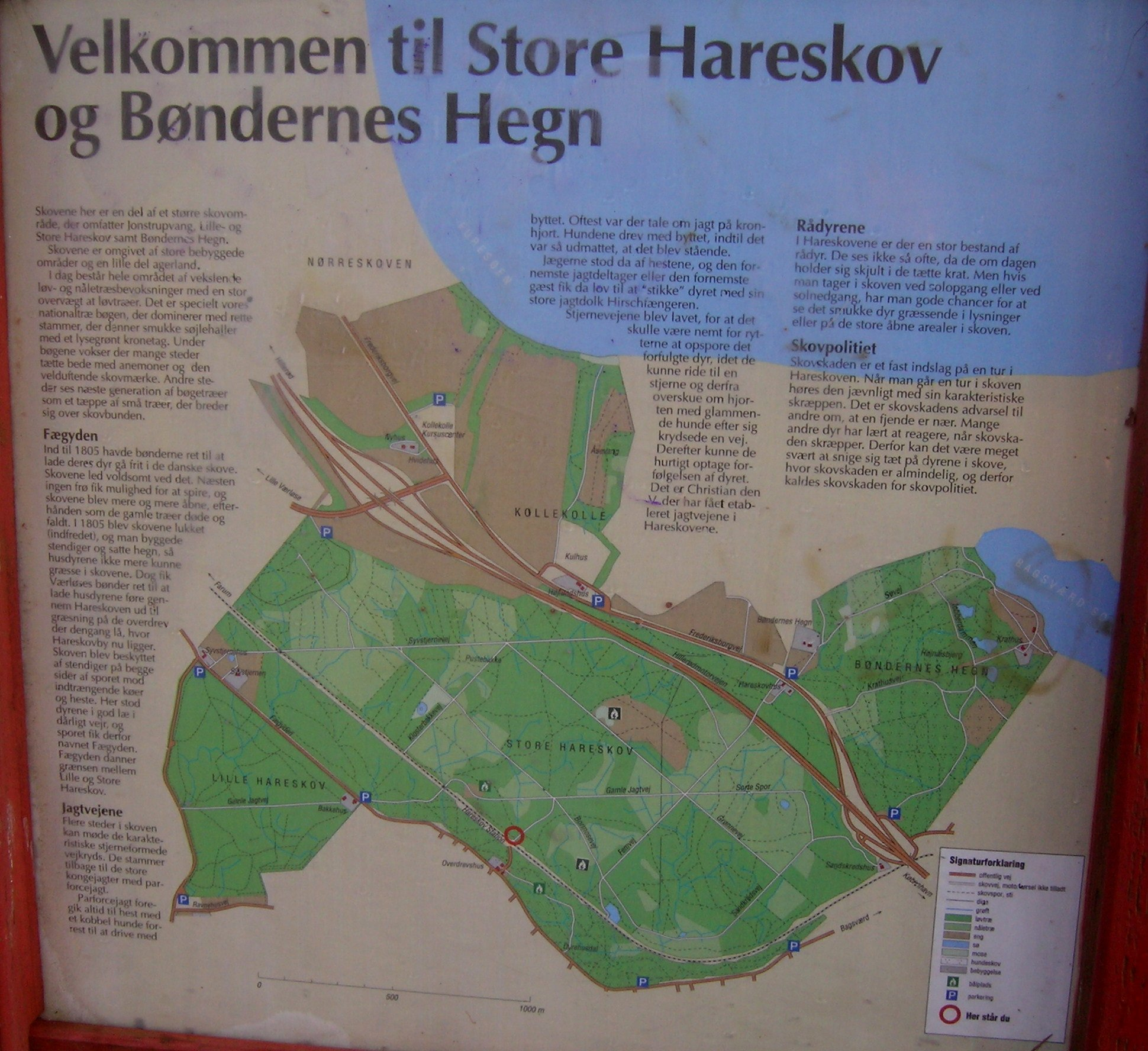 Map of hareskoven